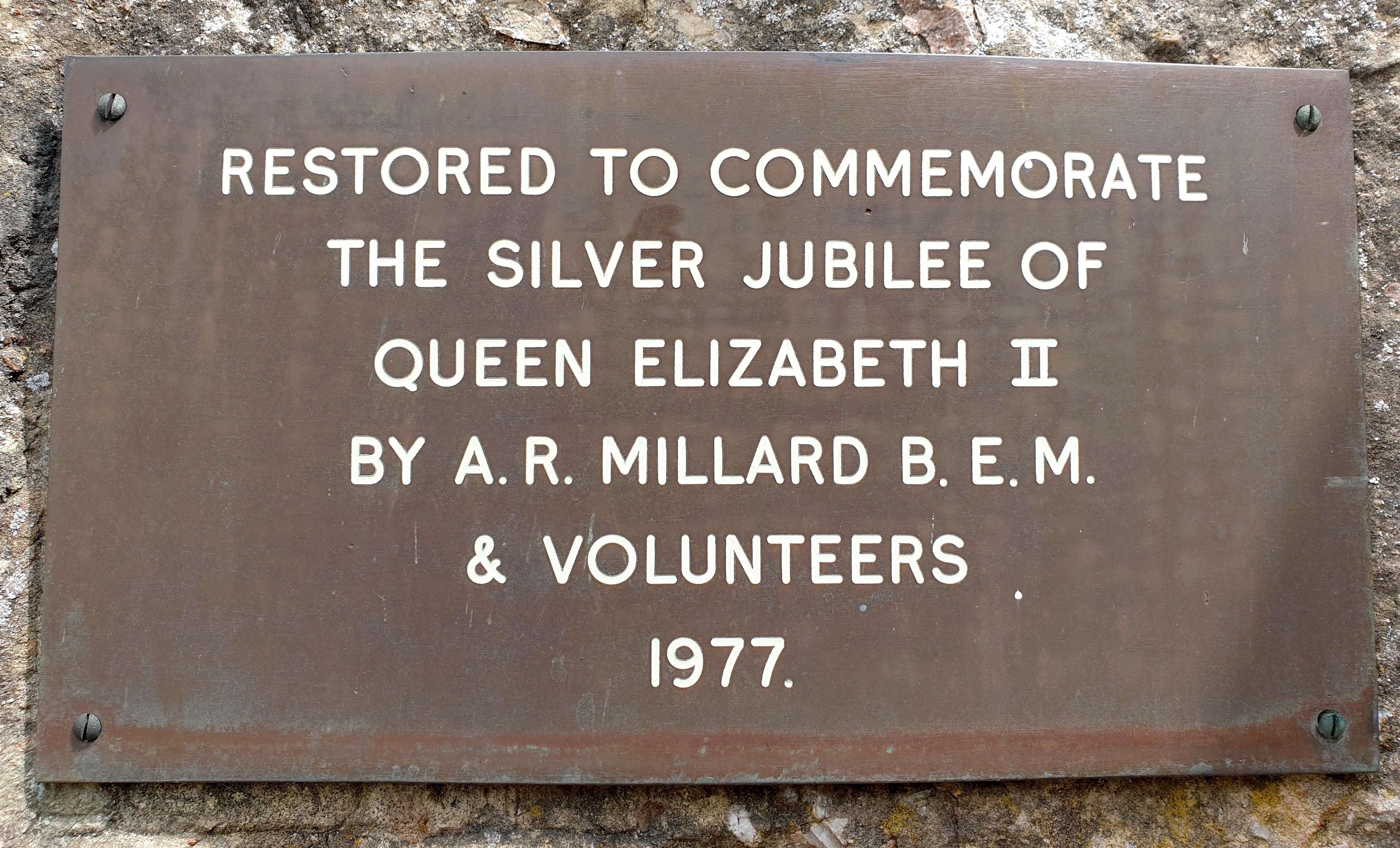 Arthur Raymond Millard BEM was the former chairman of Churchill Parish Council and helped to restore the clock tower at Churchill